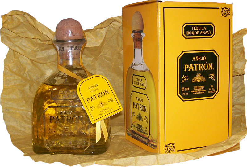 bottle of patron gold